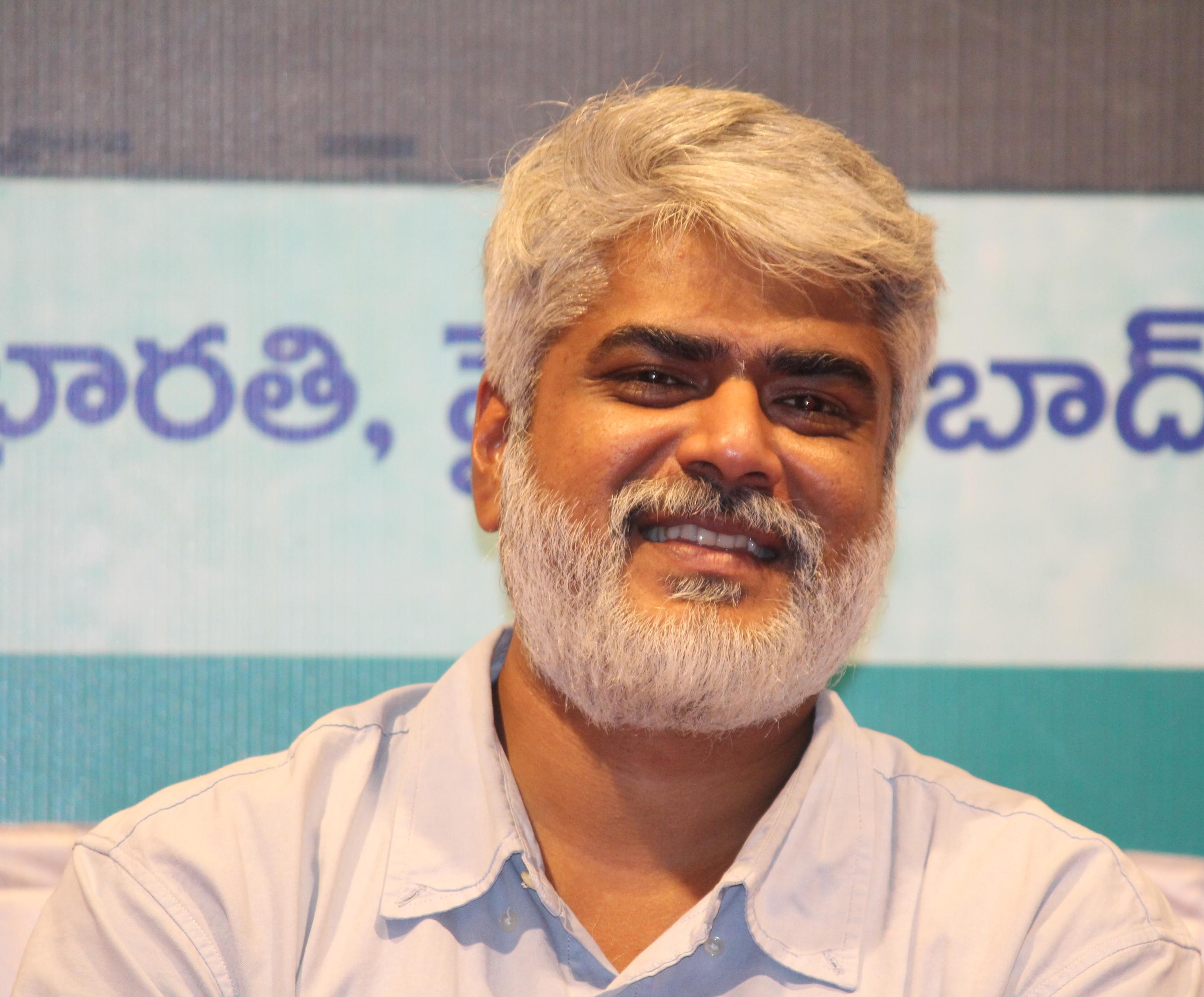 Anish Kuruvilla in Cinivaram, Ravindra Bharathi, Hyderabad